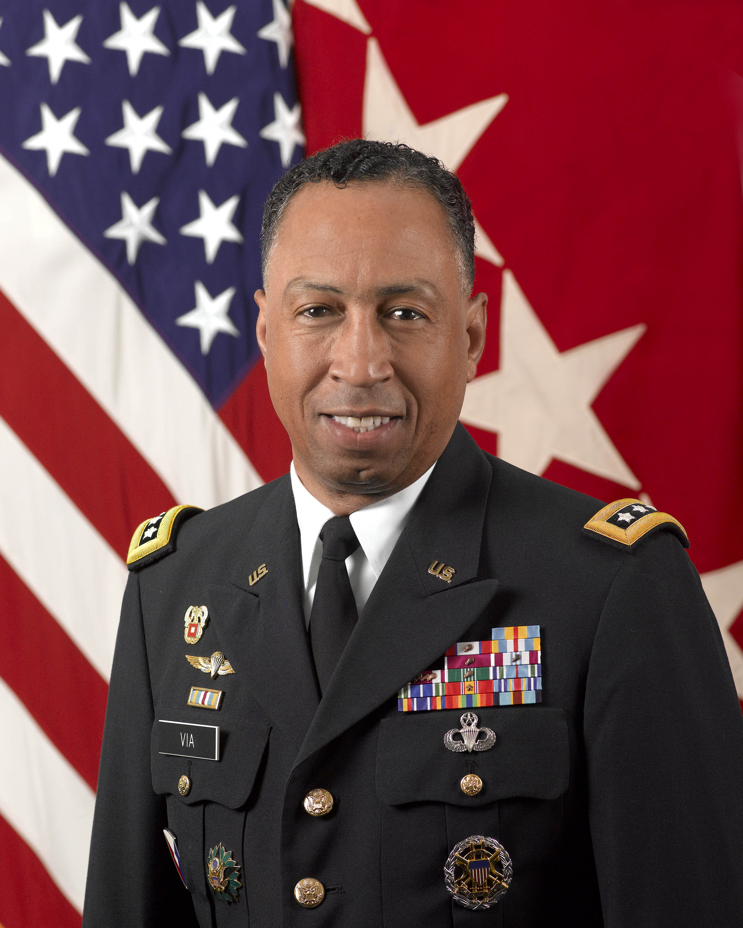 General Dennis L. Via, USA18th Commanding General, U.S. Army Material Command (AMC)